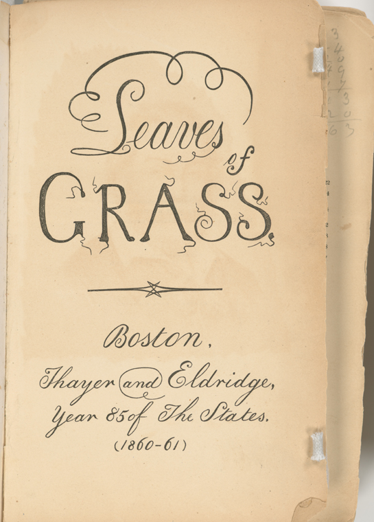 Leaves of Grass. Boston: Thayer and Eldridge, year 85 of the States. [1860-61] [Title page]. Creator: Whitman, Walt, 1819-1892 -- Author.